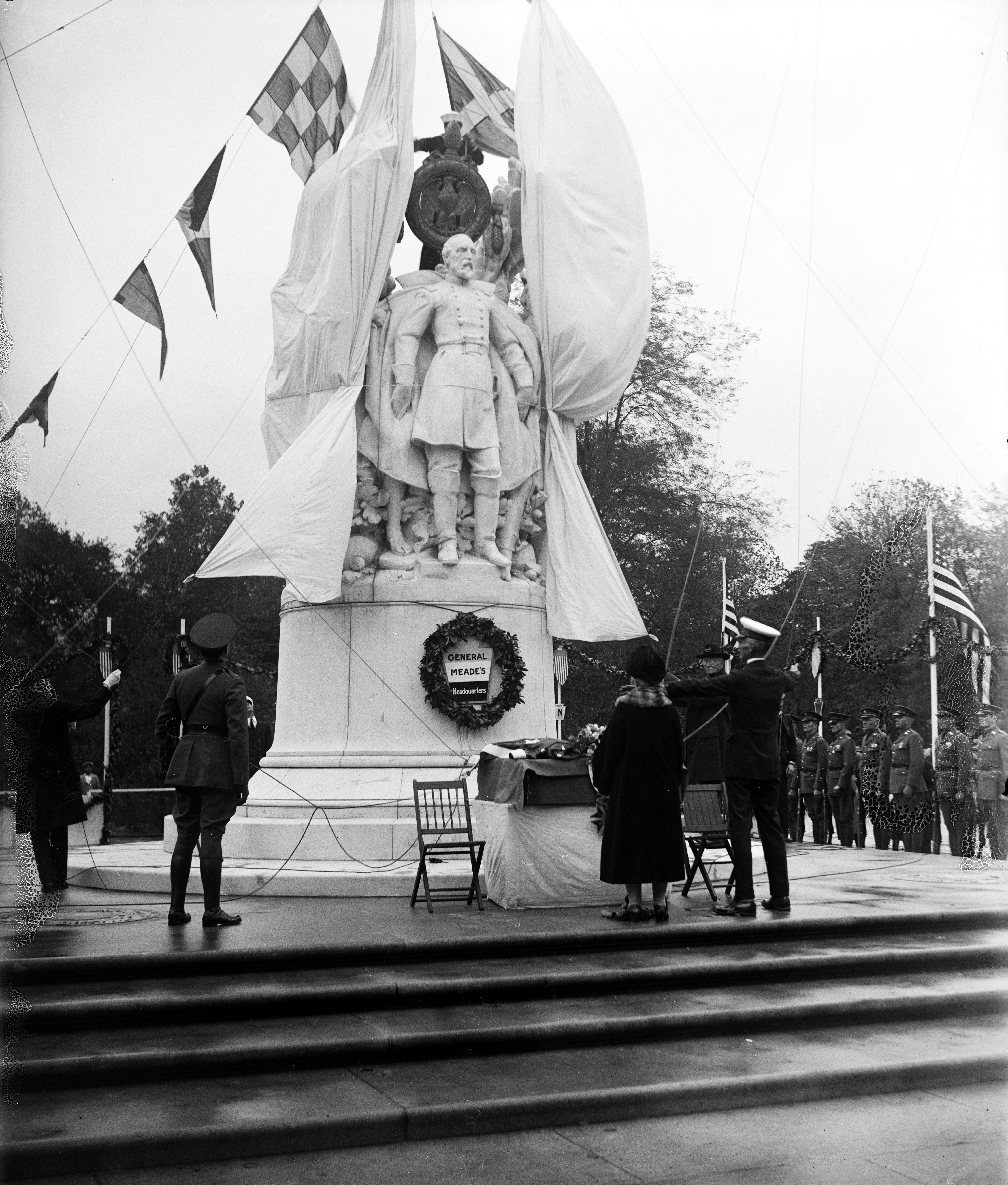 Dedication ceremony of the George Gordon Meade Memorial in Washington, D.C.